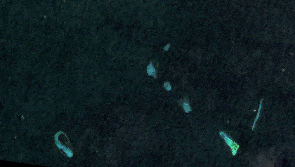 Landsat 7 satellite image of the South Luconia Shoals in the South China Sea southwest of the Spratly Islands on the continental shelf in front of the Malaysian state of Sarawak. The exposure of the image has been increased by about 12 f-stops. The original color (RGB: 52,29,61) is purplish, therefore a color overlay was used which is based on the color (RGB:6,36,47) of the Satellite Image of Bing Maps for this coordinates 5°36′0.0″N 112°36′0.0″W / 5.6°N 112.6°W.